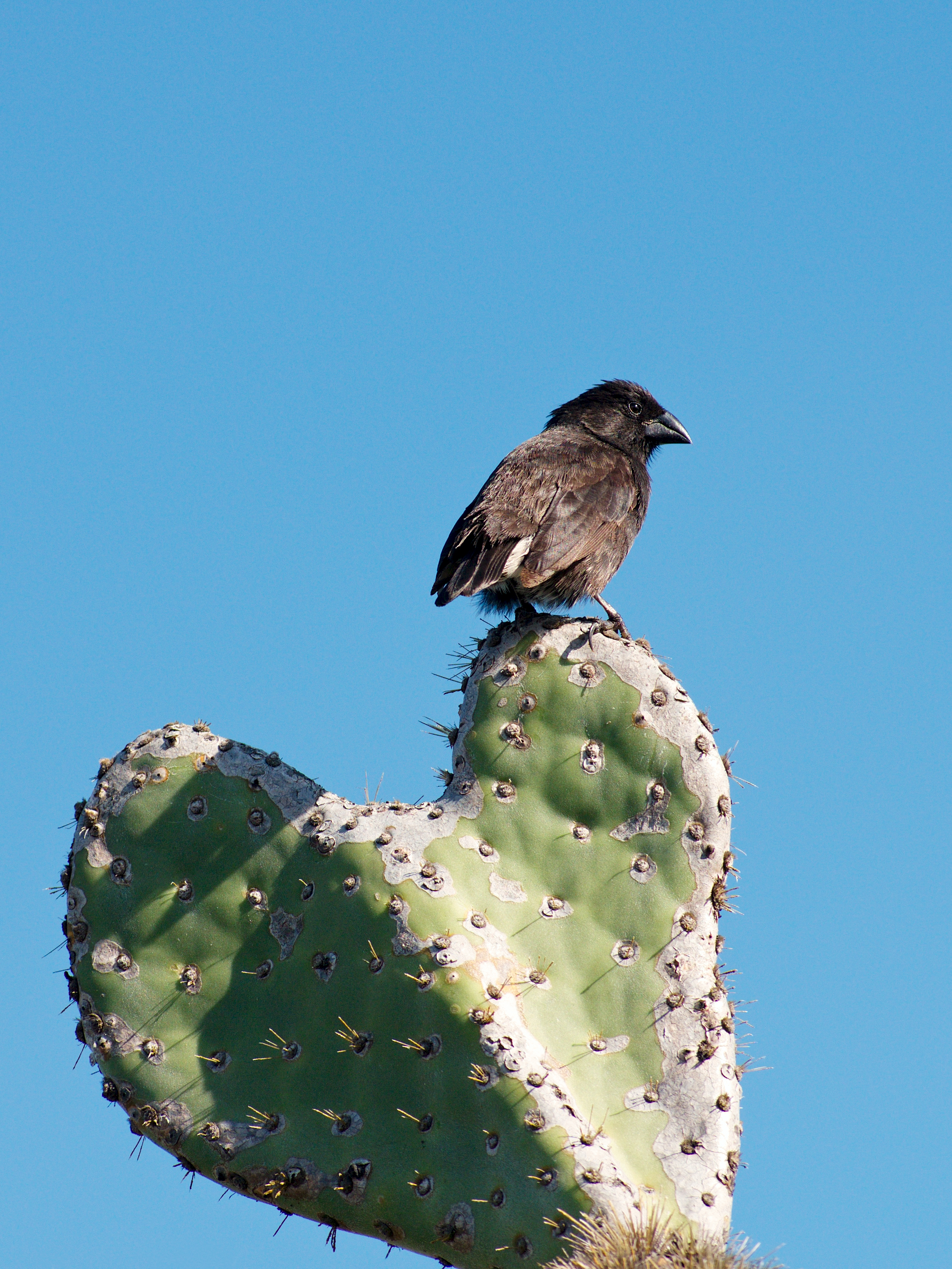 Darwin's finch (Geospiza) sitting on a cactus, Santa Cruz island, Galapagos Islands.